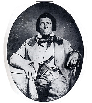 James P. Beckwourth, 1855 in California